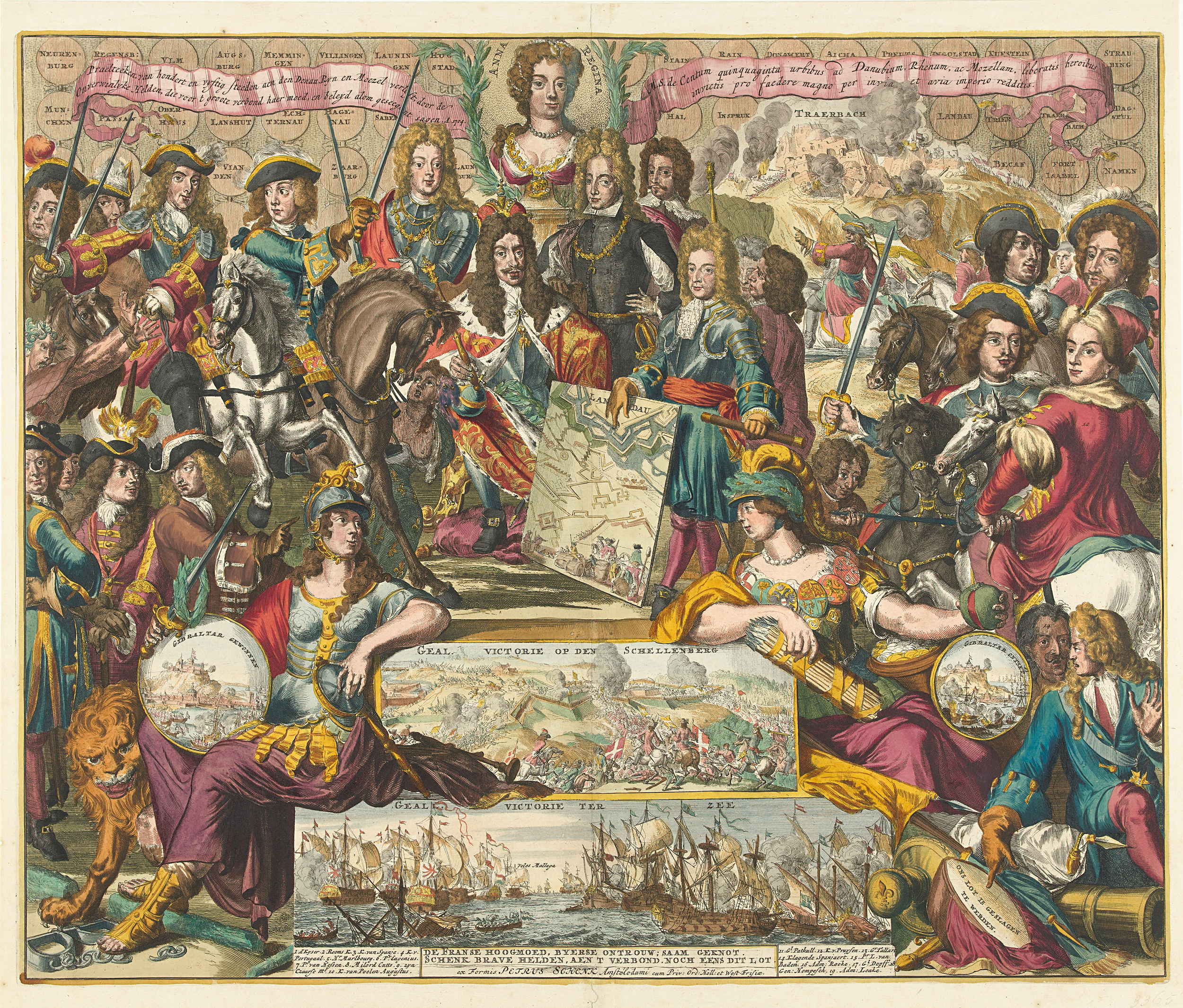 Allegory of the Victory of the Grand Alliance over the French in the Year 1704. At the top, the bust of Queen Anne surrounded by princes and military leaders of the Allies.